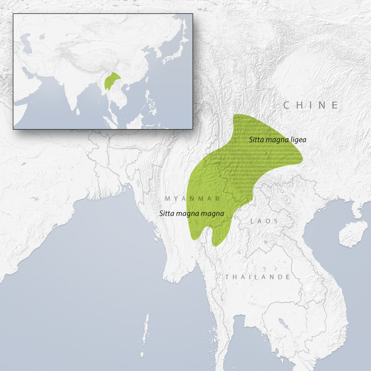 Distribution of the Giant Nuthatch (Sitta magna)